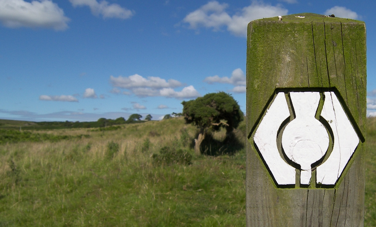 Waymarker at Southern Upland Way